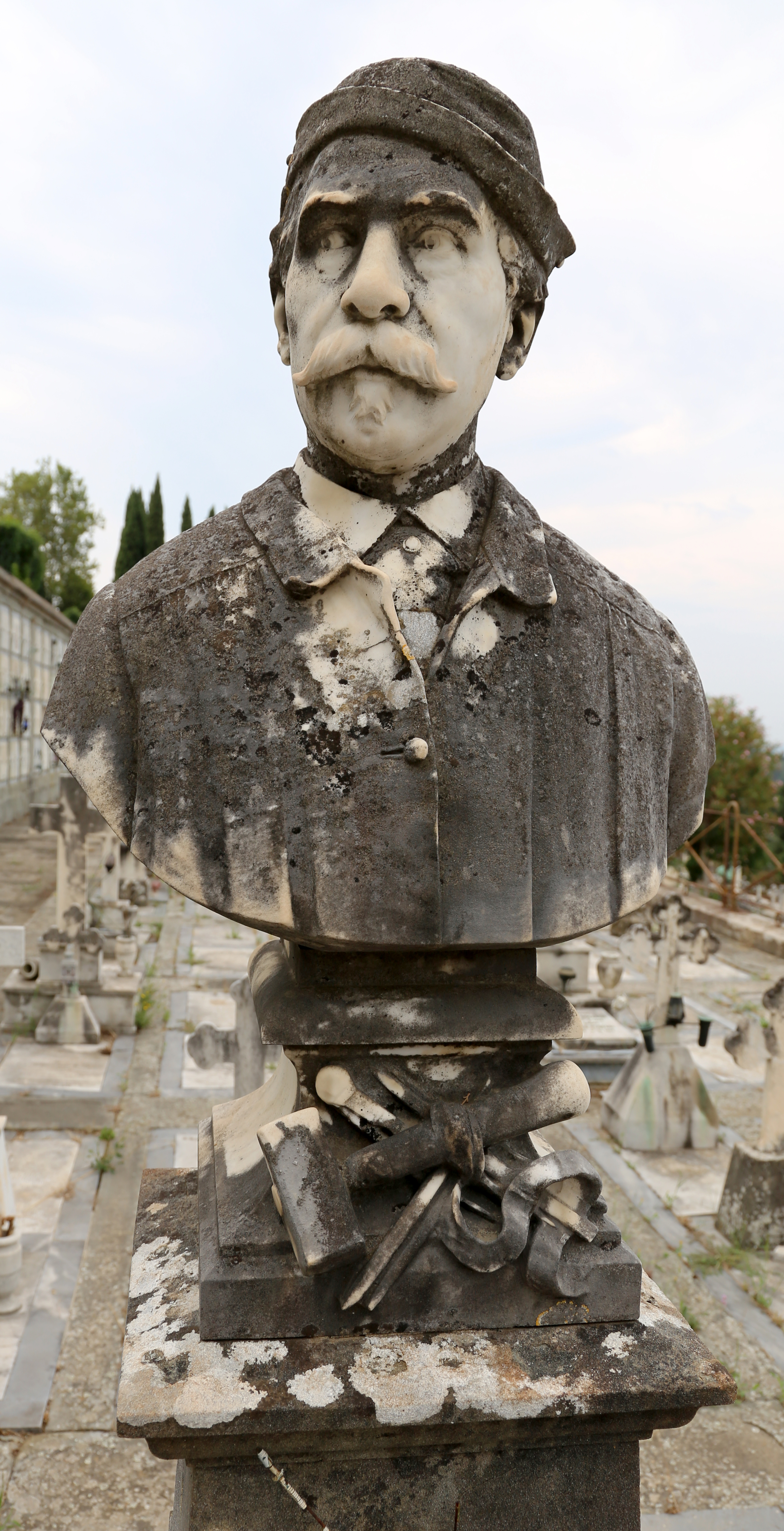 Trespiano cemetery